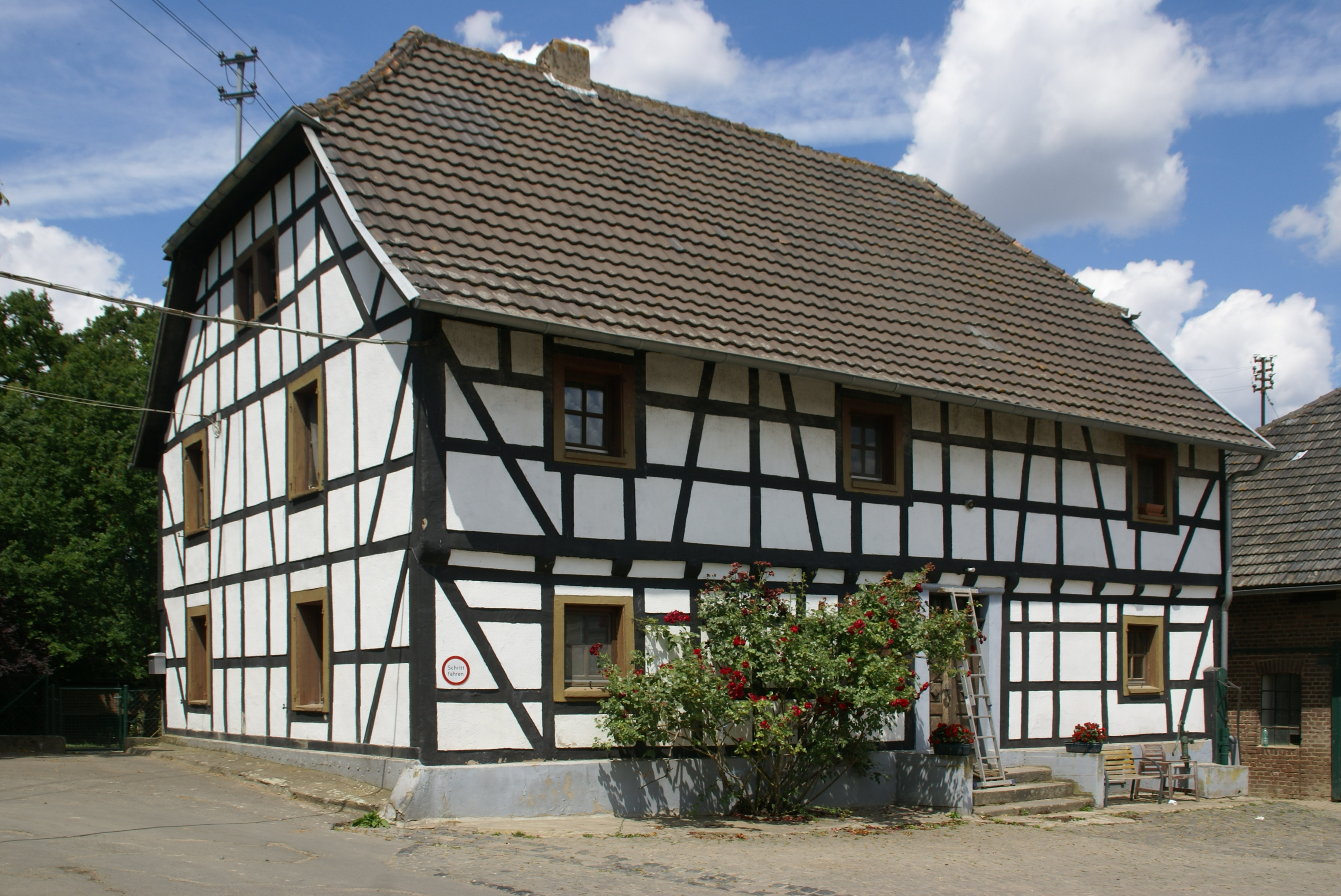 Residential house of the Heiderhof in Vinxel